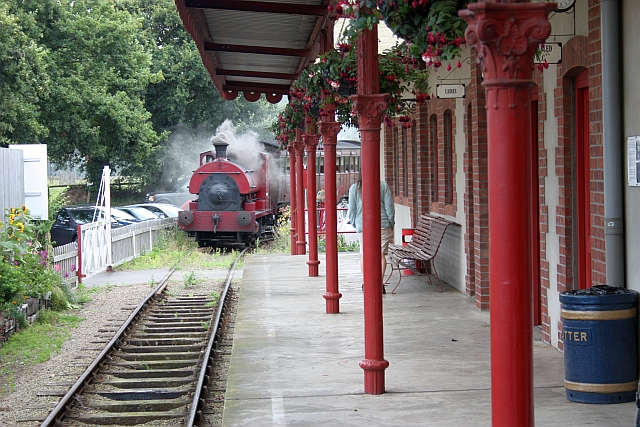 Pallot museum platform. The little saddle tank steam locomotive pulls holidaymakers around the museum grounds to return to the Victorian style station platform . This was only constructed in 1996.